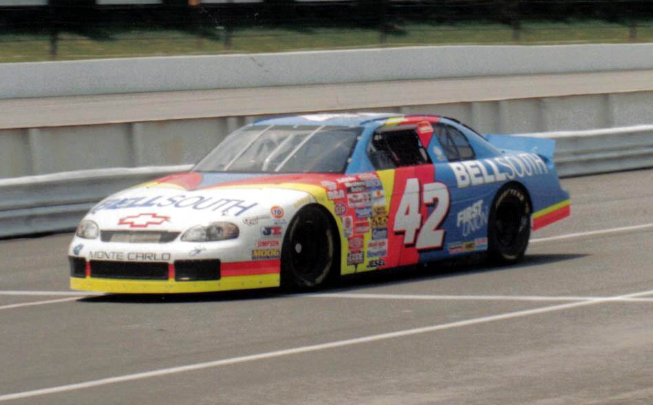 NASCAR driver Joe Nemechek was the driver for Felix Sabates in 1997 in the Bellsouth #42.